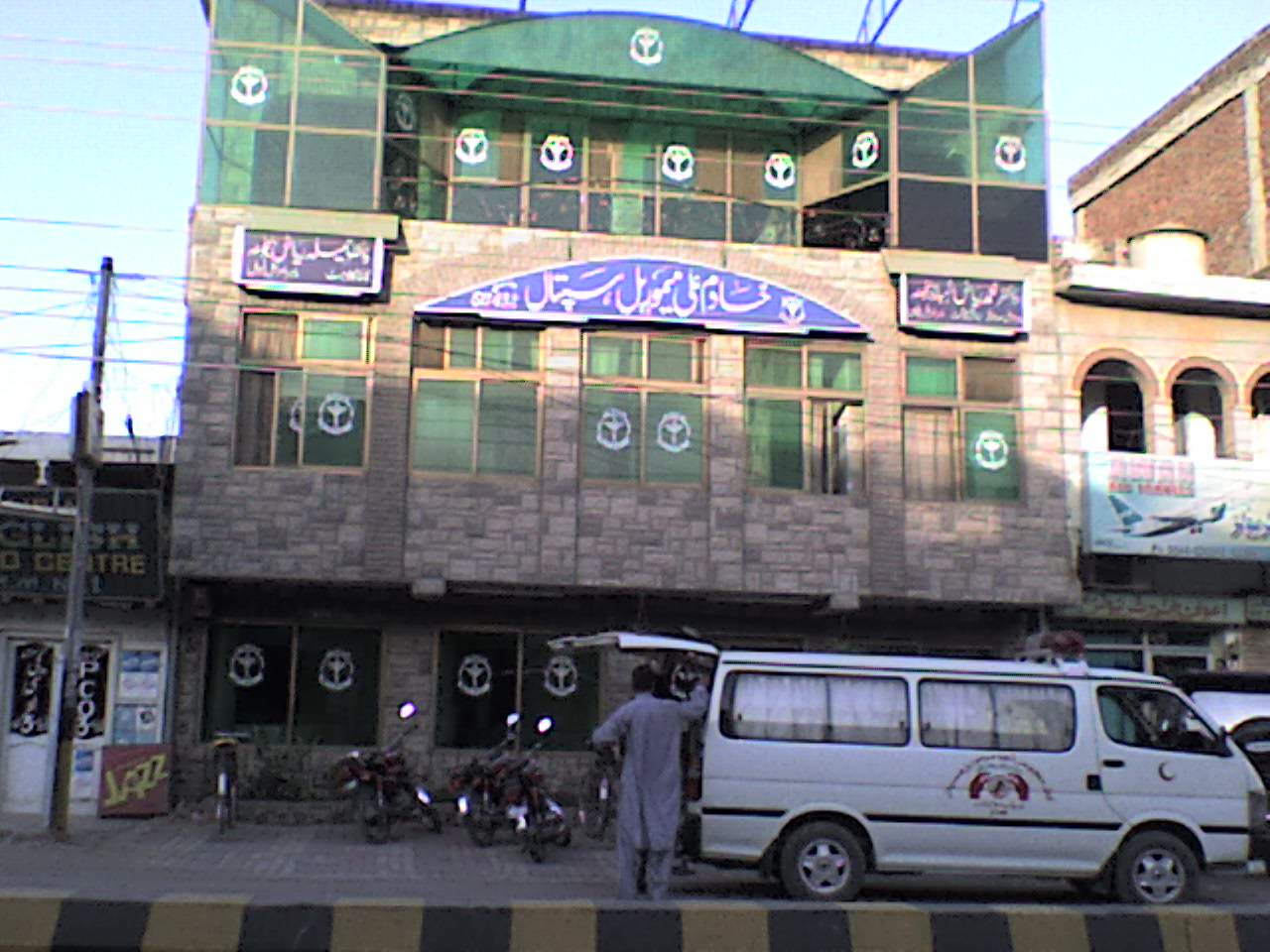 AlKhadim Memorial Hospital